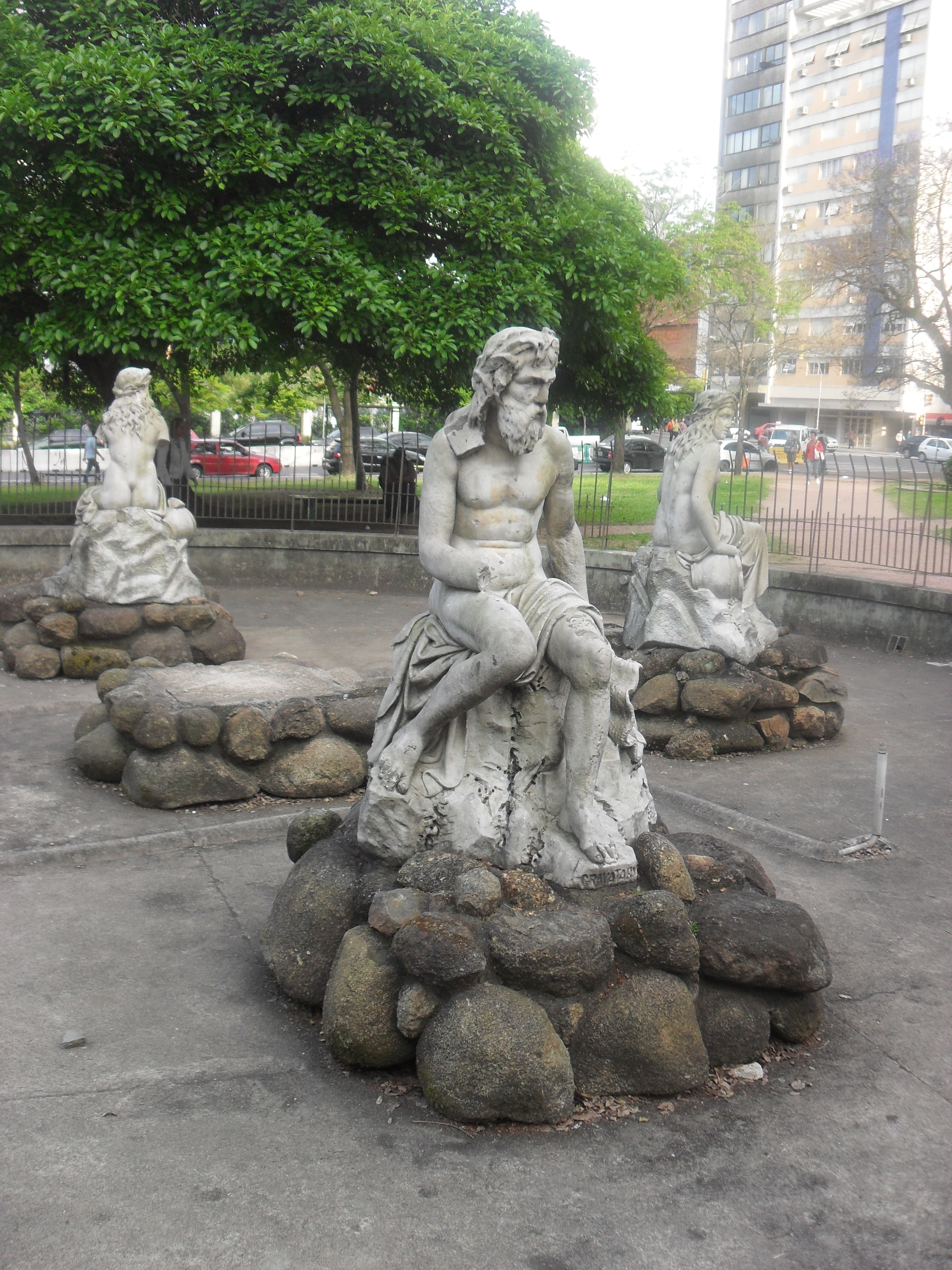 Statue in Dom Sebastião Square, Porto Alegre, Brazil. It represents Gravataí river. Marble, unknown author, XIX century. Very damaged by vandalism